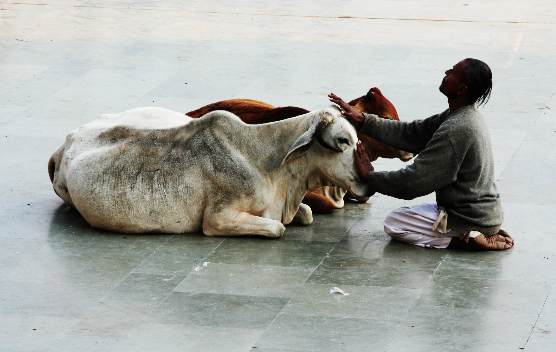 Kneeling man stroking a resting cow in Varanasi, India. Photography by the NGO medaptCow stroker